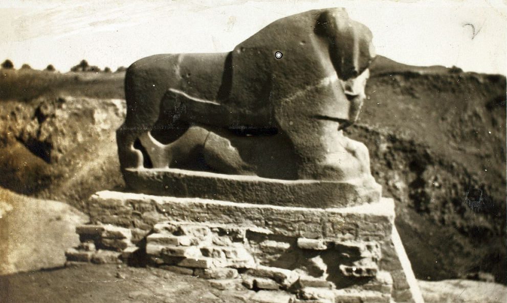 Sacred Lion of Babylon